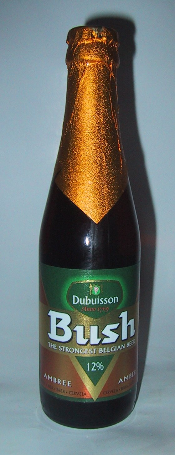 Bush beer (Belgium)